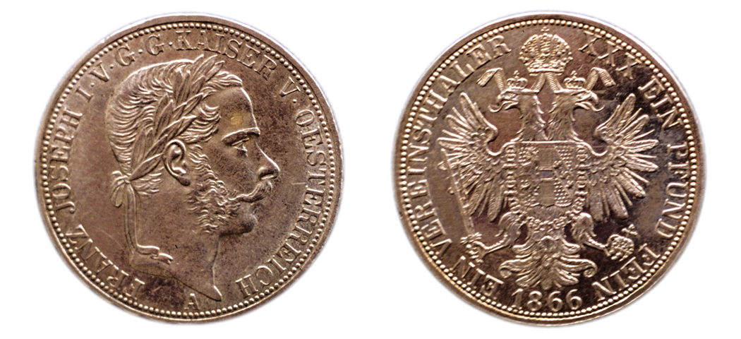 Vereinsthaler Austria Franz Joseph II